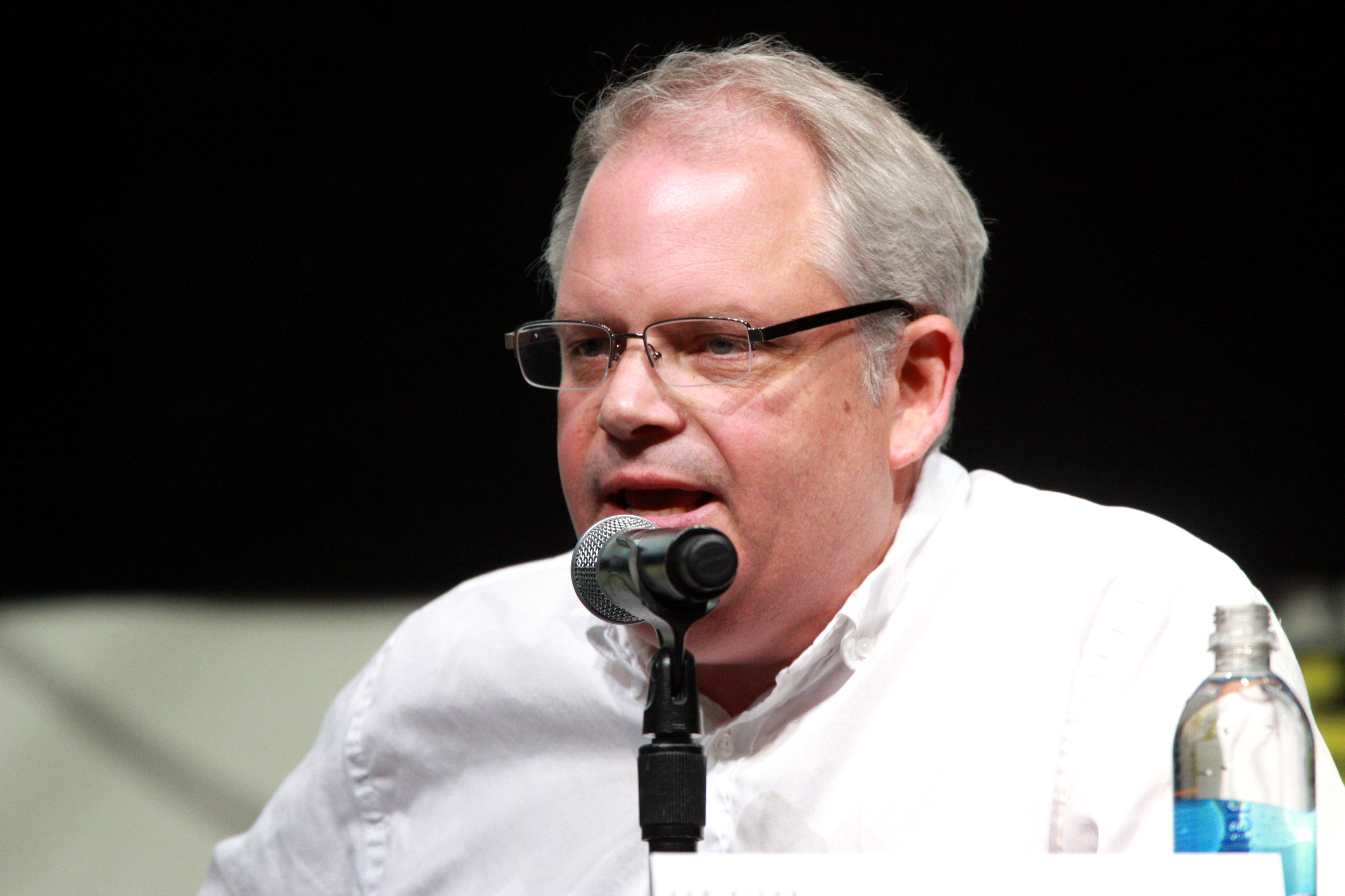 Coto at San Diego Comic Con International in 2013